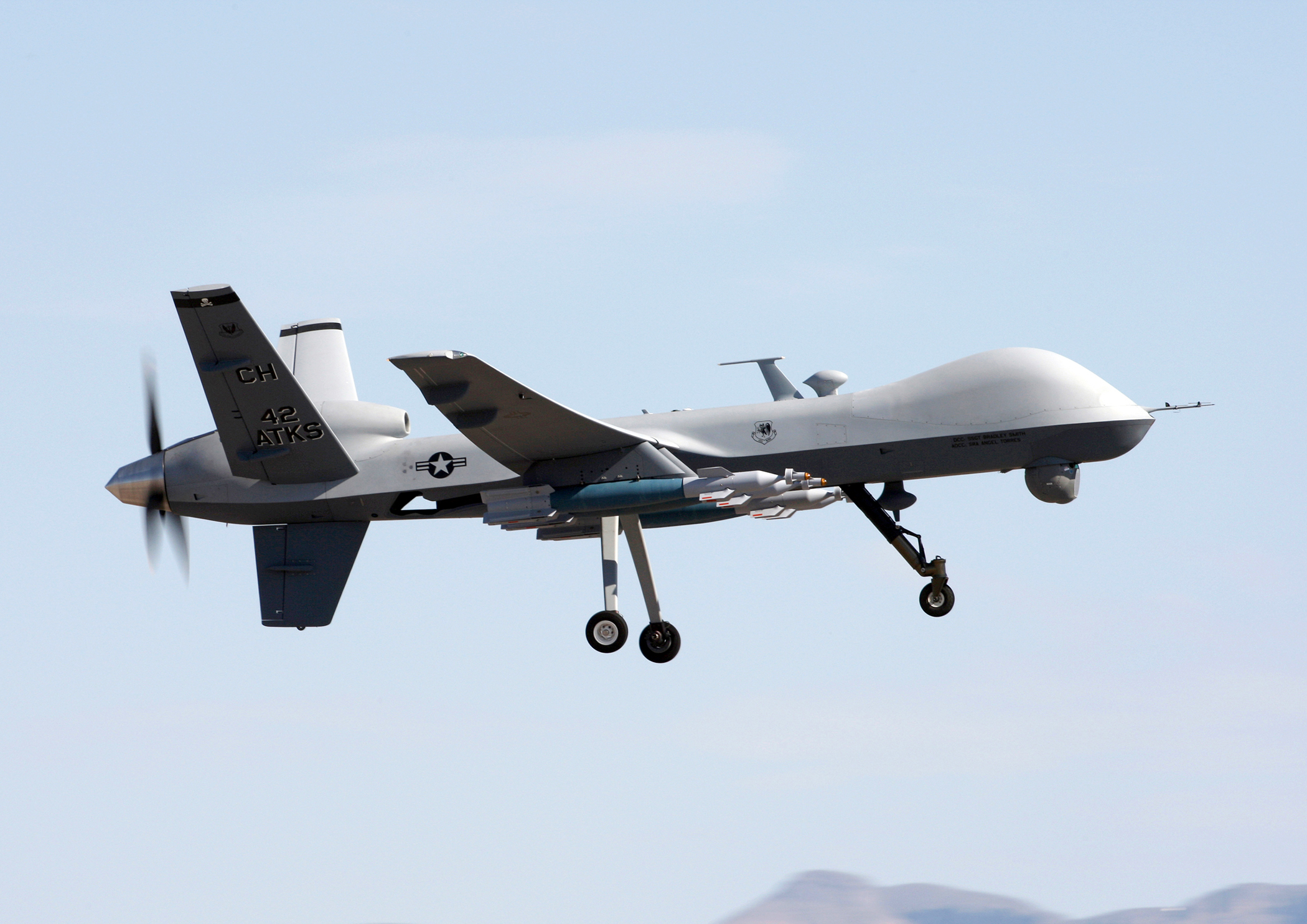 CREECH AFB, Nev. -- A MQ-9 Reaper flies above Creech AFB during a local training mission here. The 42nd Attack Squadron currently operates the MQ-9.